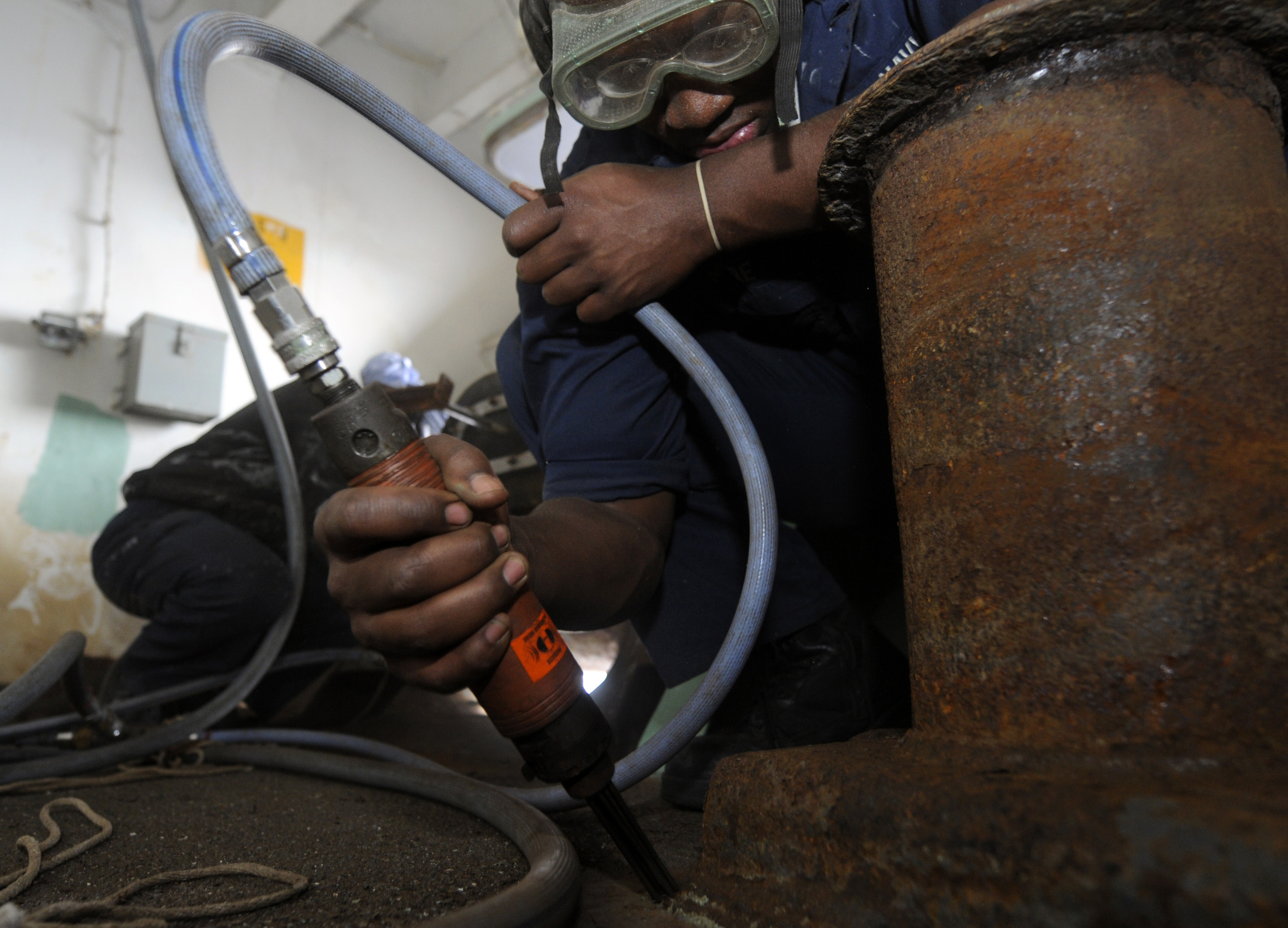 PACIFIC OCEAN (Oct. 9, 2009) Seaman Darrell Moore removes rust with a needle gun in a mooring station aboard the amphibious command ship USS Blue Ridge (LCC 19). Blue Ridge is the flagship for Commander, U.S. 7th Fleet. (U.S. Navy photo by Mass Communication Specialist 3rd Class Daniel Viramontes/Released)